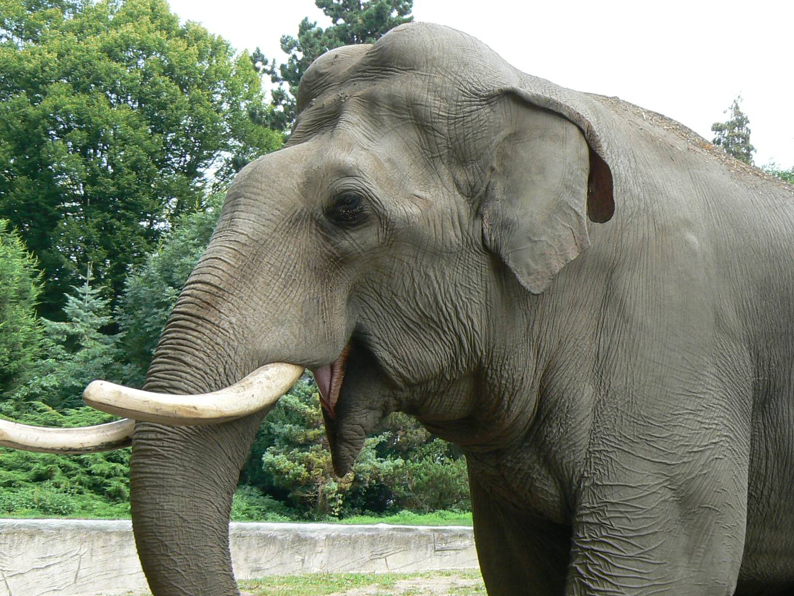 male asian elephant on the zoo from hamburg "Elephas maximus"